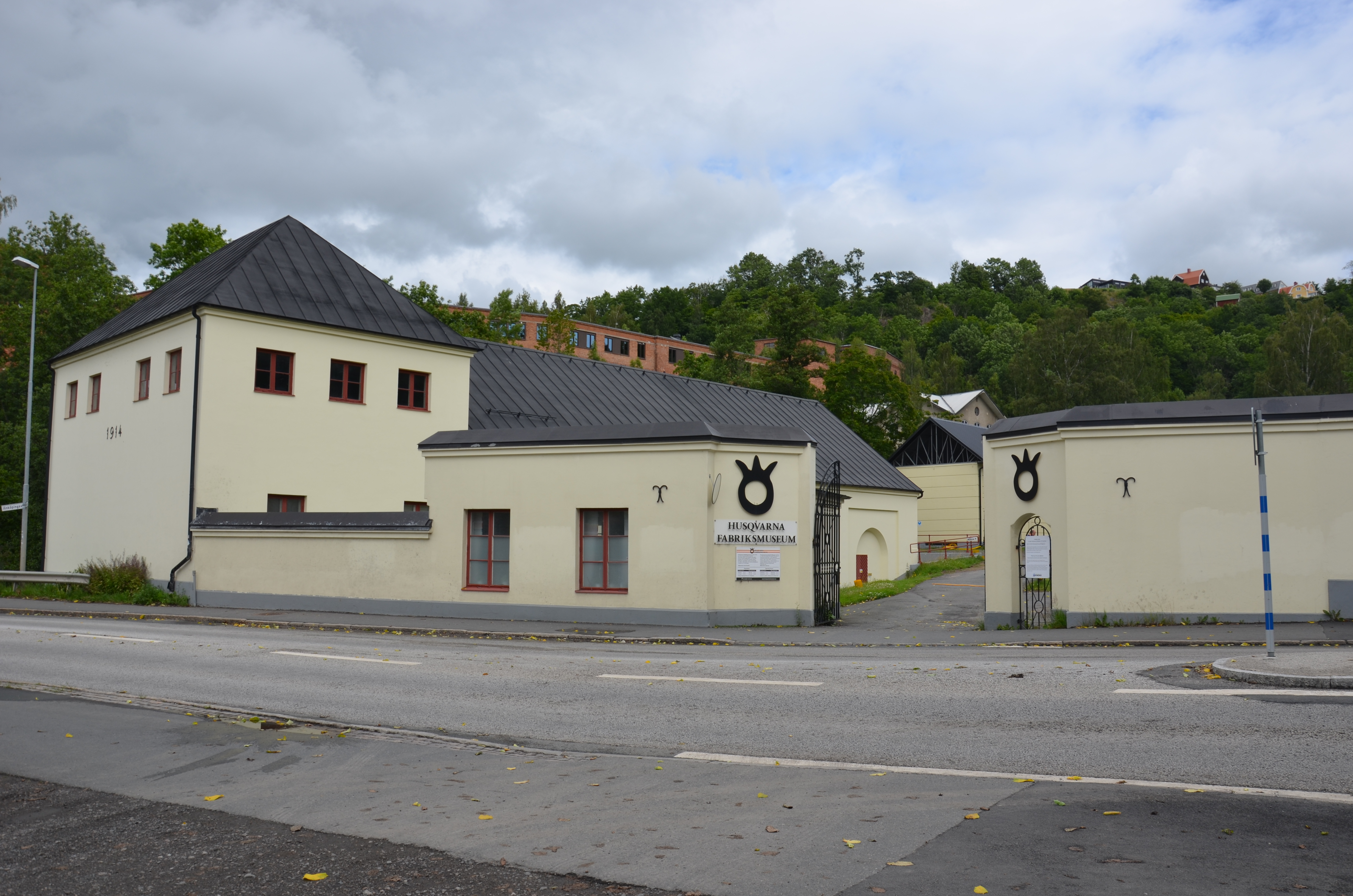 Husqvarna Industrial Museum